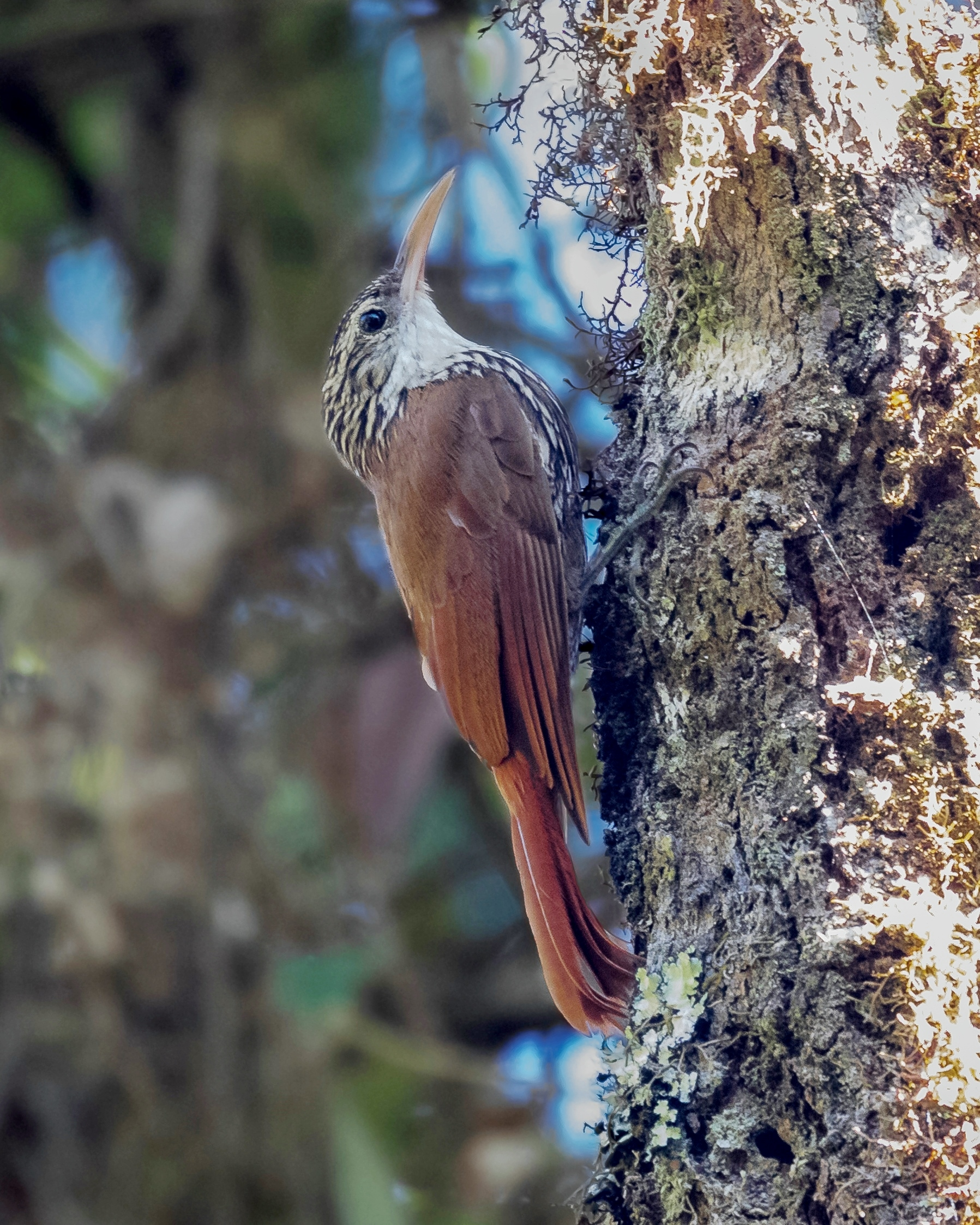 Scalloped Woodcreeper; Monte Verde, Camanducaia, Minas Gerais, Brazil